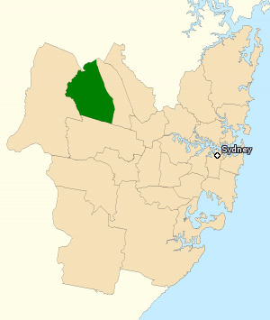 Incorporates or developed using Administrative Boundaries ©PSMA Australia Limited licensed by the Commonwealth of Australia under Creative Commons Attribution 4.0 International licence (CC BY 4.0). Derived from State and Territory Boundaries from the Australian Bureau of Statistics under Creative Commons Attribution 2.5 Australia license (CC BY 2.5 AU)